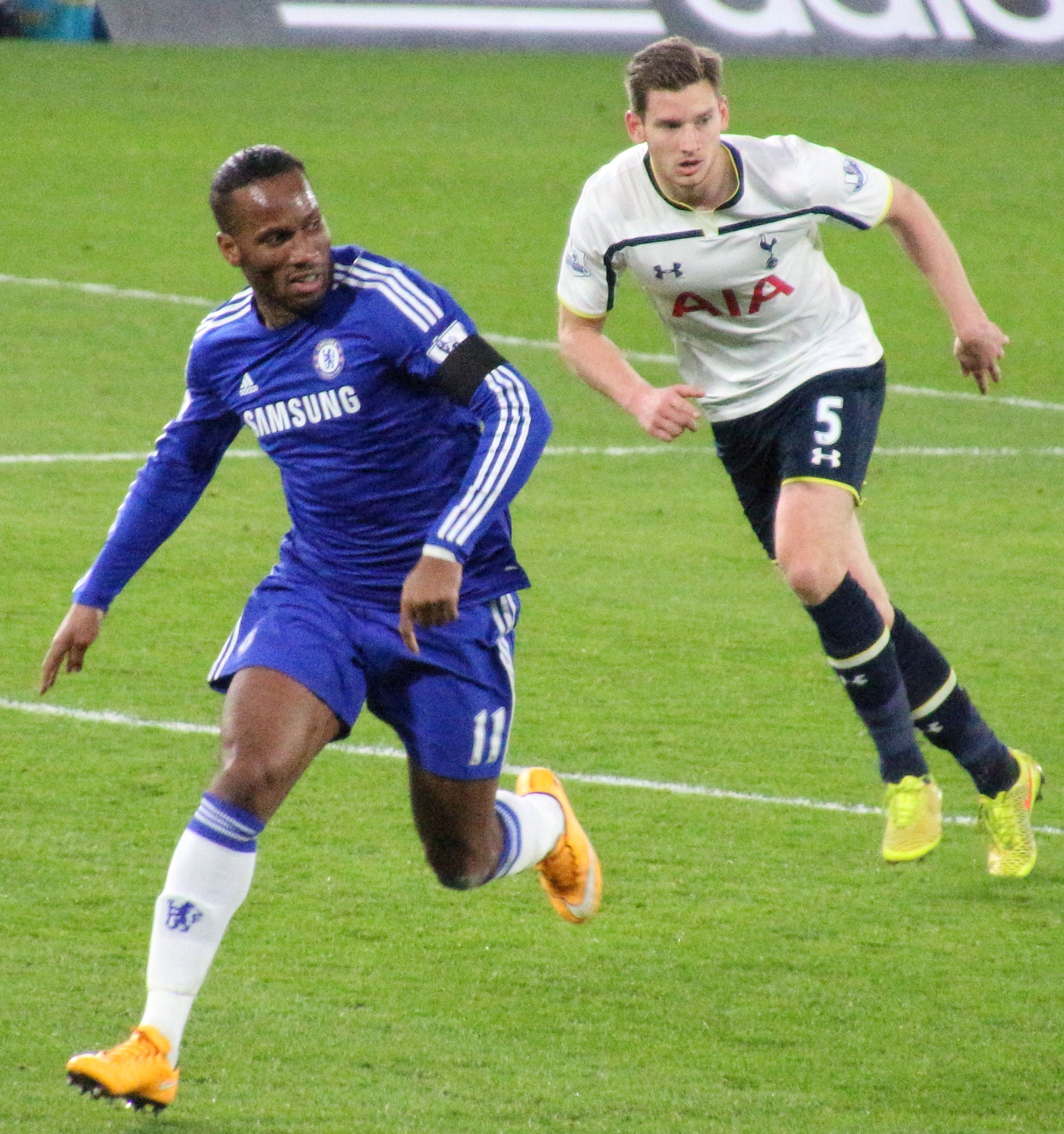 Chelsea 3 Spurs 0